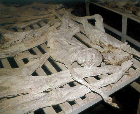 Mummified victims of the Rwandan genocide (1994) at Murambi Technical School